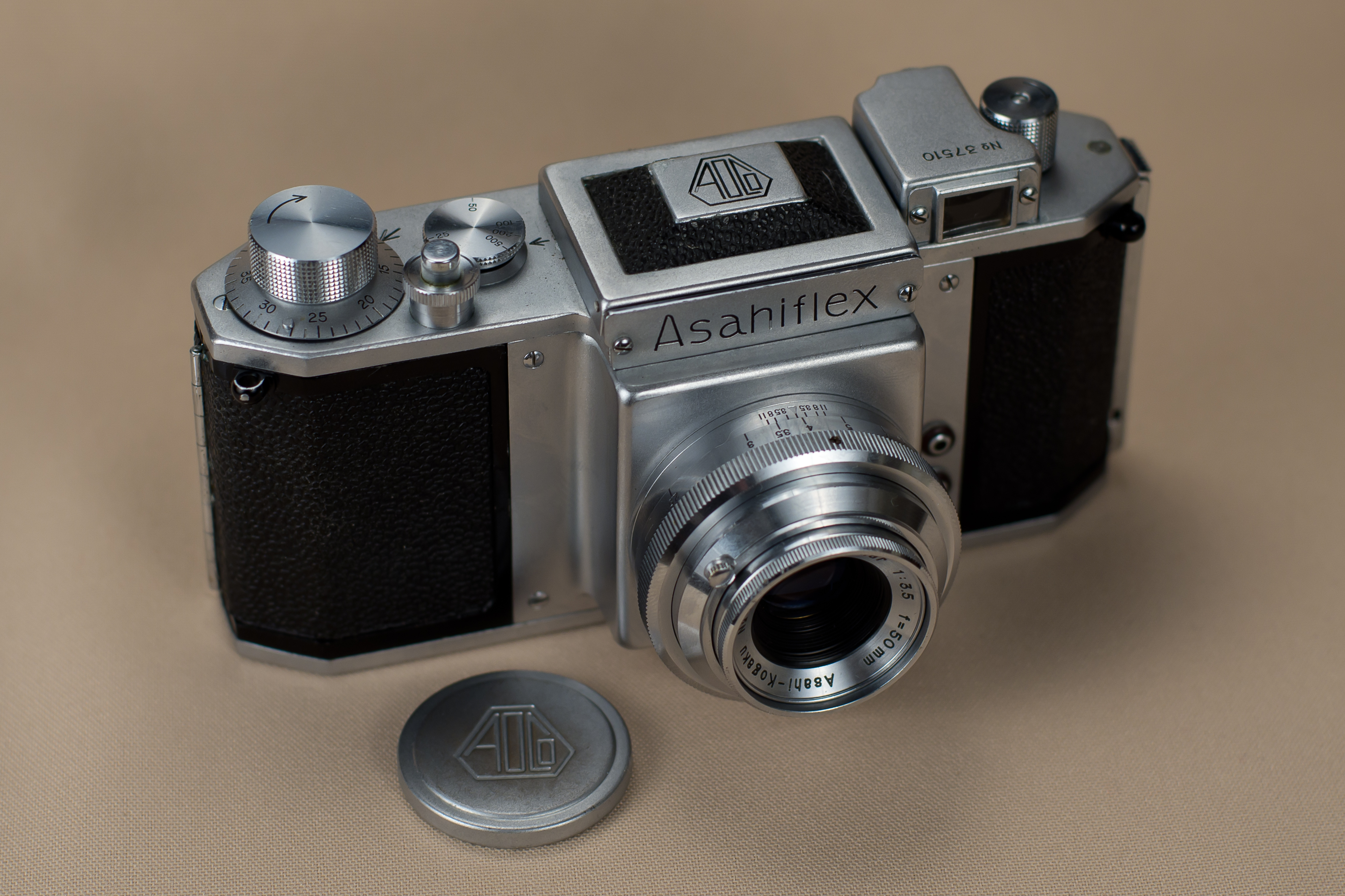 Asahiflex Ia close